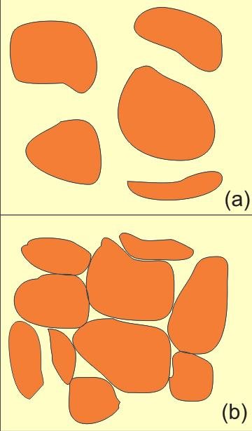 (a)paraconglomerate, (b) orthoconglomerate